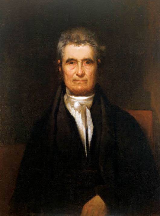 US Chief Justice John Marshall